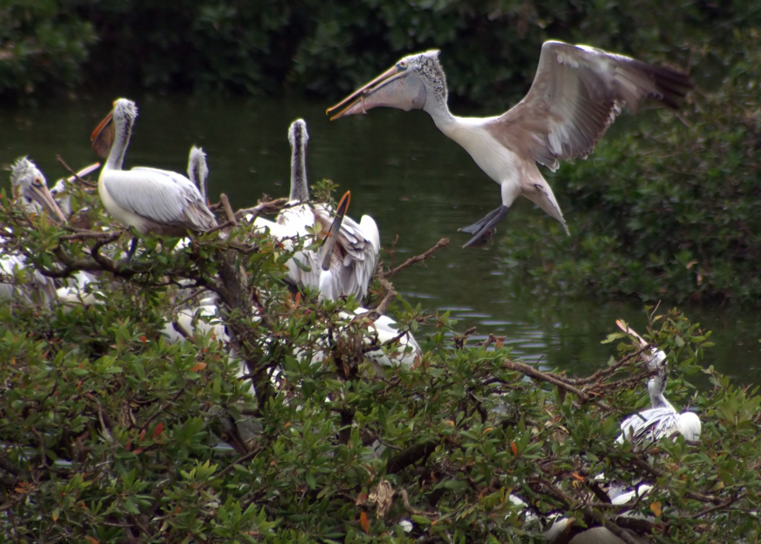 Vedanthangal Stork Breeding